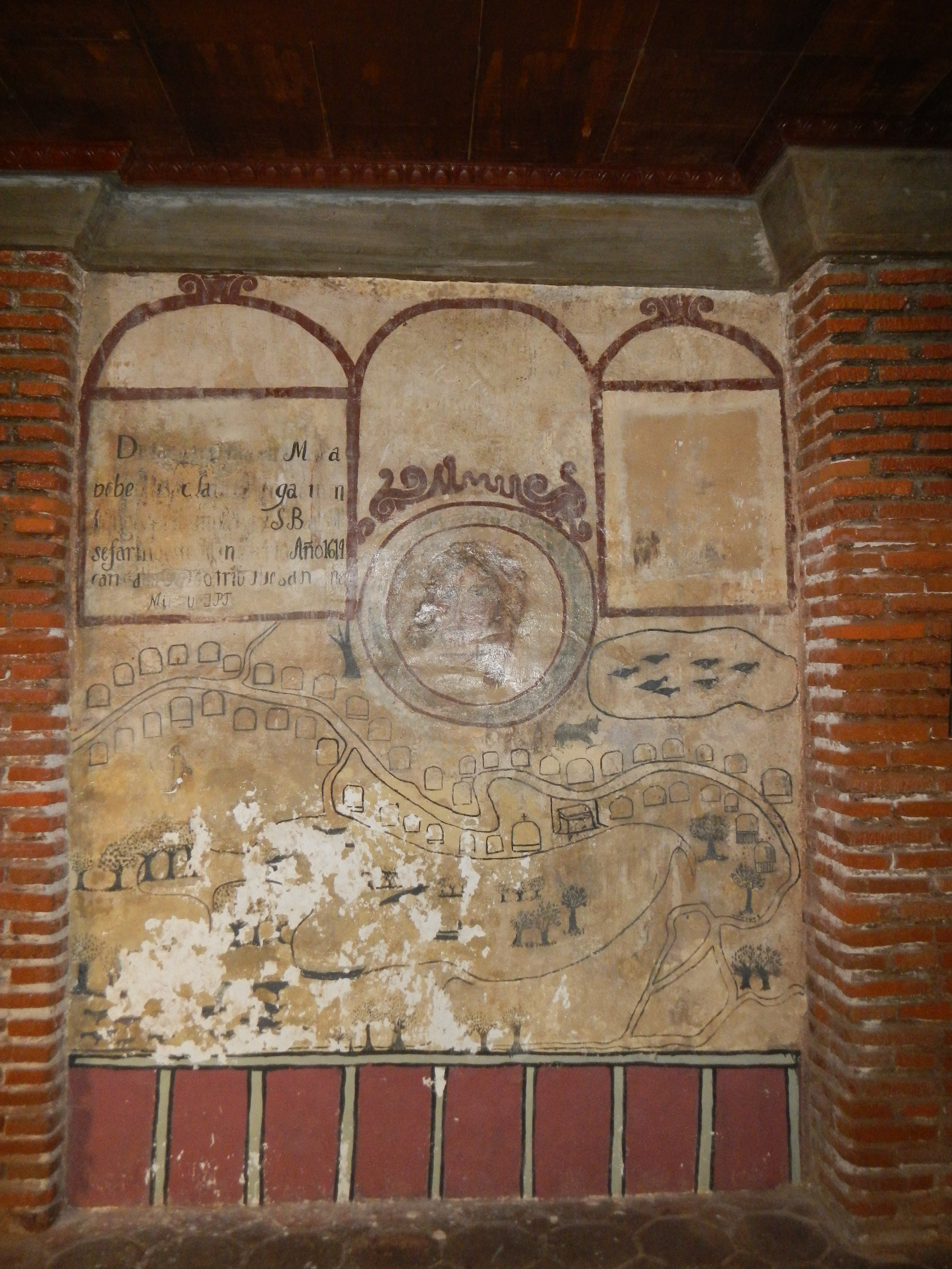 [1]The 1721 Santa Monica Parish Church, commonly known as the Minalin Church is a Baroque (heritage) Church, located in 2019 Minalin, Pampanga (San Nicolas). It is a Spanish-era church declared a National Cultural Treasure by the National Museum of the Philippines and the National Commission for Culture and the Arts (Philippines).